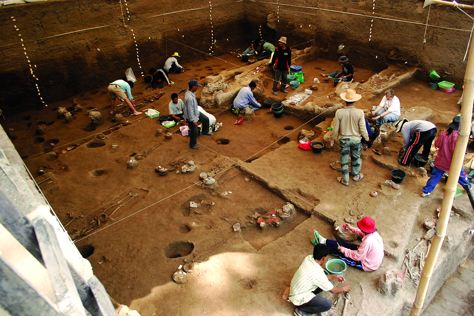 ban non wat